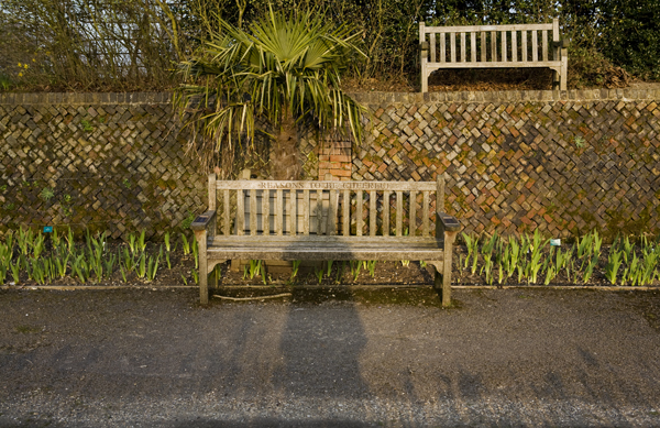 Ian Dury Memorial Bench in Poet's Corner, Richmond Park. The bench is inscribed "REASONS TO BE CHEERFUL", the title of a Dury Hit single; this is the only reference to Dury as there is no descriptive label. The concept is that visitors would be able to plug in their earphones in one of the two socket in the bench and, powered by two small solar panels, listen to eight different musical pieces by Dury. Unfortunately, this function is currently not operational and, reportedly, has not been for approximately one year.